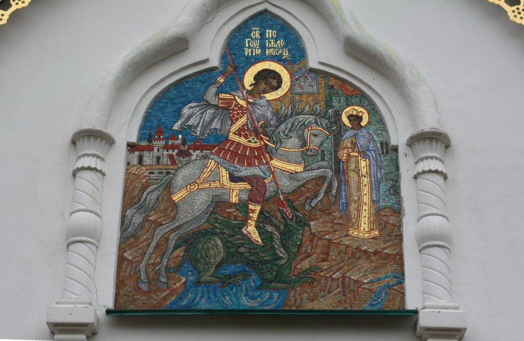 Feodorovsky Cathedral in Tsarskoye Selo. Officer's entrance mosaic